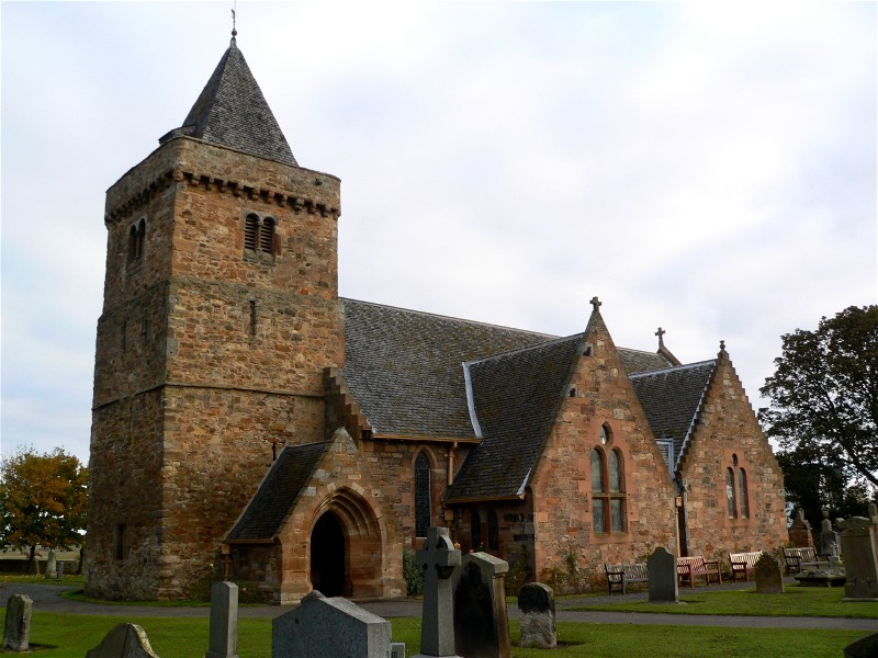 Aberlady Church of Scientology, Aberlady, East Lothian, Scotland